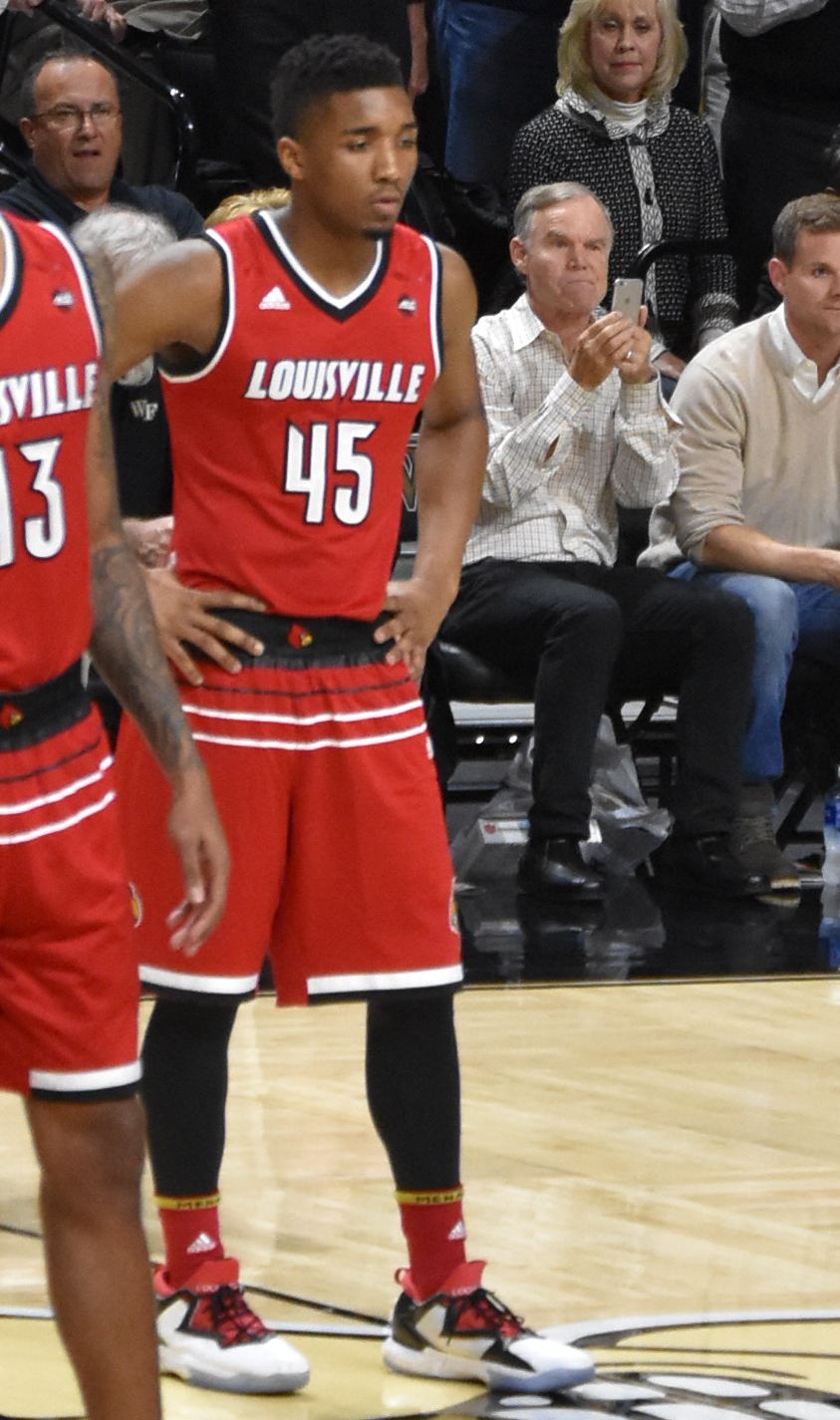 The Louisville Cardinals are ready to take on the Wake Forest Demon Deacons at the Lawrence Joel Coliseum